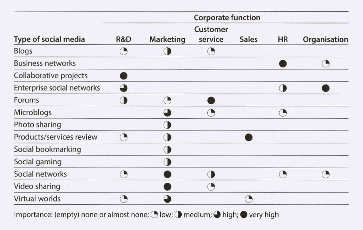 Importance of social media for different corporate functions